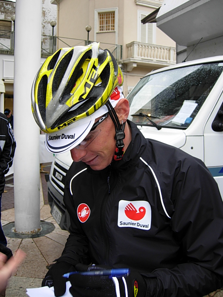 It shows Riccardo Ricco during a race in Italy in 2007 : Riccione-Riccione (Settimana internazionale di Coppi e Bartali)